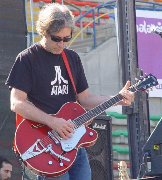 Berry Sakharof in a concet at the "The Students' day" events of HUJI